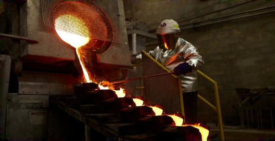 Melted gold at the Rosebel Mine in Suriname